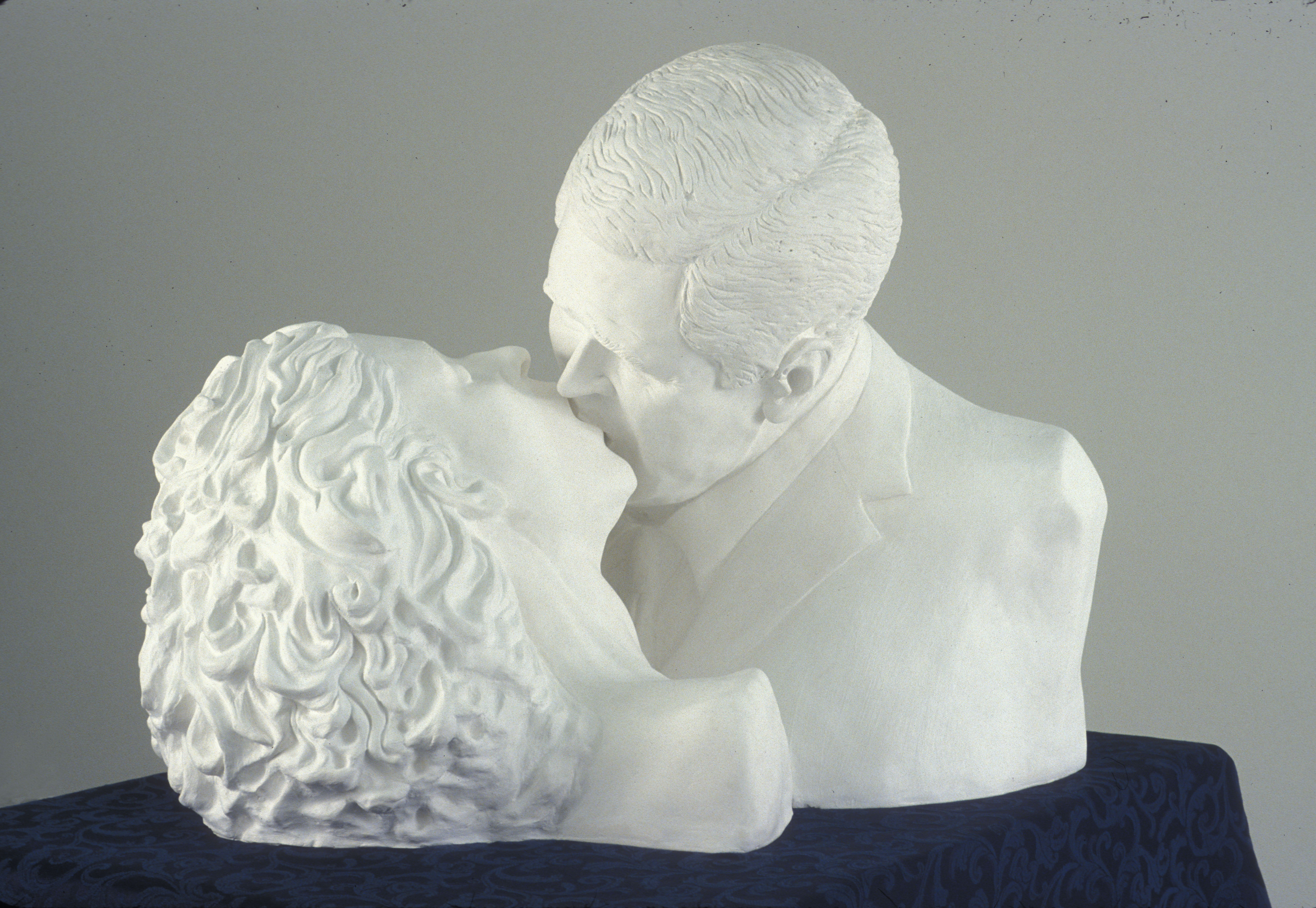 "Kissing President Bush" sculpture by Rachel Mason, 2004